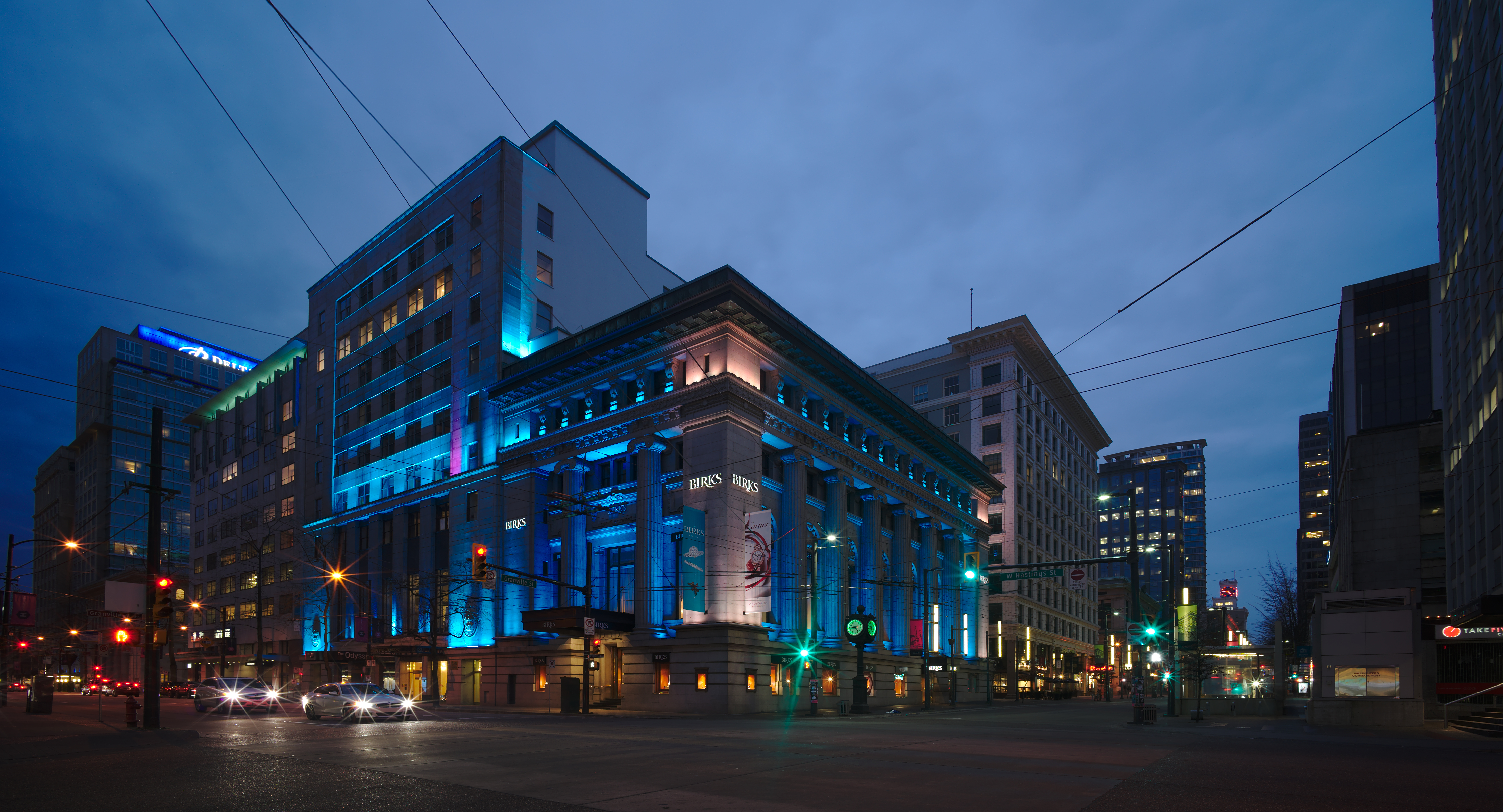 The Birks store at 698 West Hastings St, Vancouver.